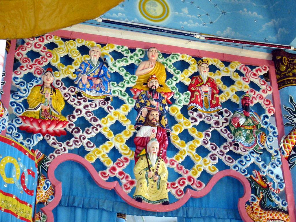 Relief at the Cao Dai Temple near Ho-Chi-Minh-City, Vietnam. On top is Buddha, on his right Lao Tzu, on his left Confucius. Under Buddha is Li Bai. On Li Bai's right is the female Boddhisattva Guanyin, on his left is the red-faced warrior Guan Gong. Below Li Bai is Jesus, and below Jesus is Jiang Ziya.